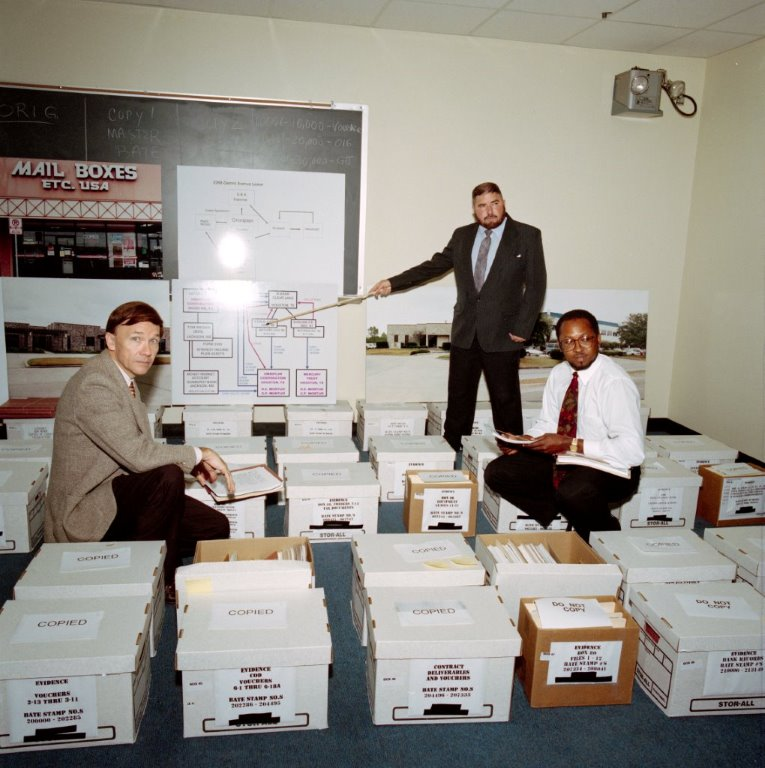 Photo of Joe Gutheinz during the NASA investigation of Omniplan.